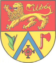 official Coat of Arms of the Samtgemeinde Papenteich((district of Gifhorn, lower saxony, Germany)